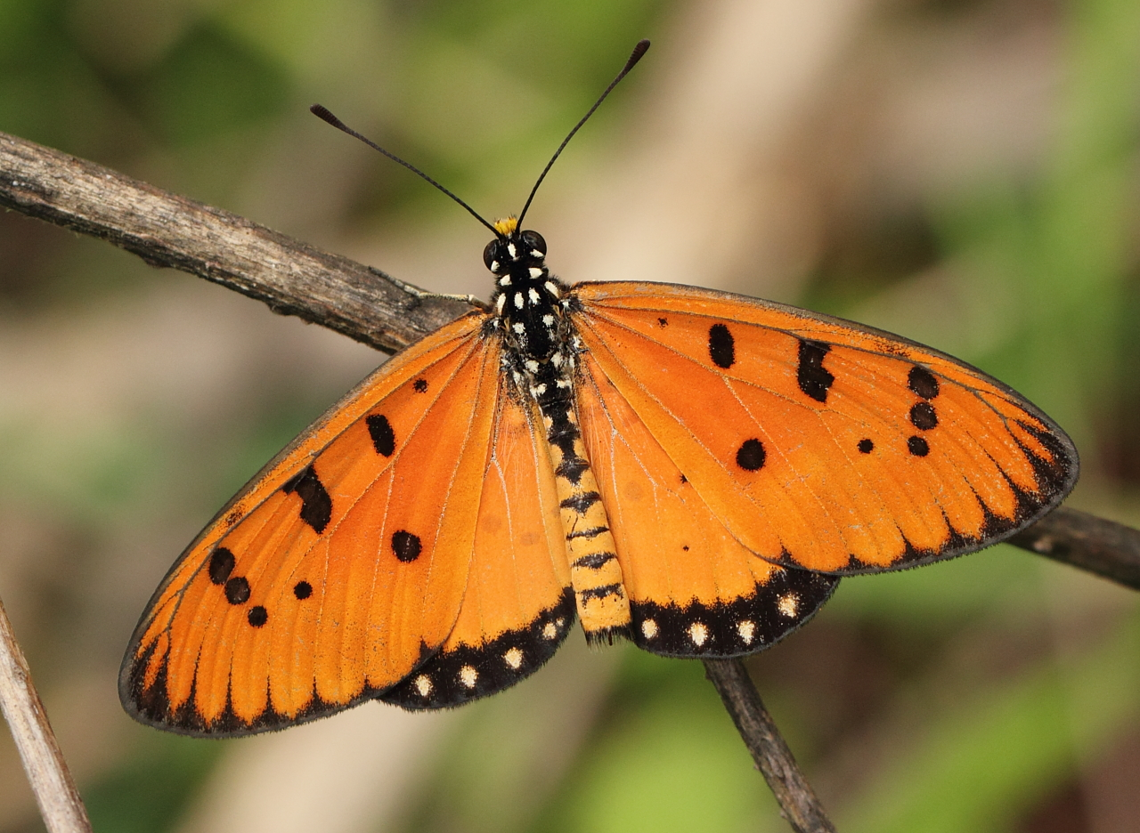 Shot from Bangalore